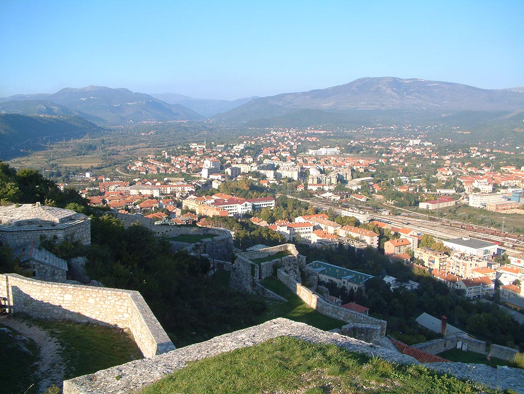 City of Knin, Croatia, view from the fortress of Knin, 2005. K. Korlević (Korlevic)